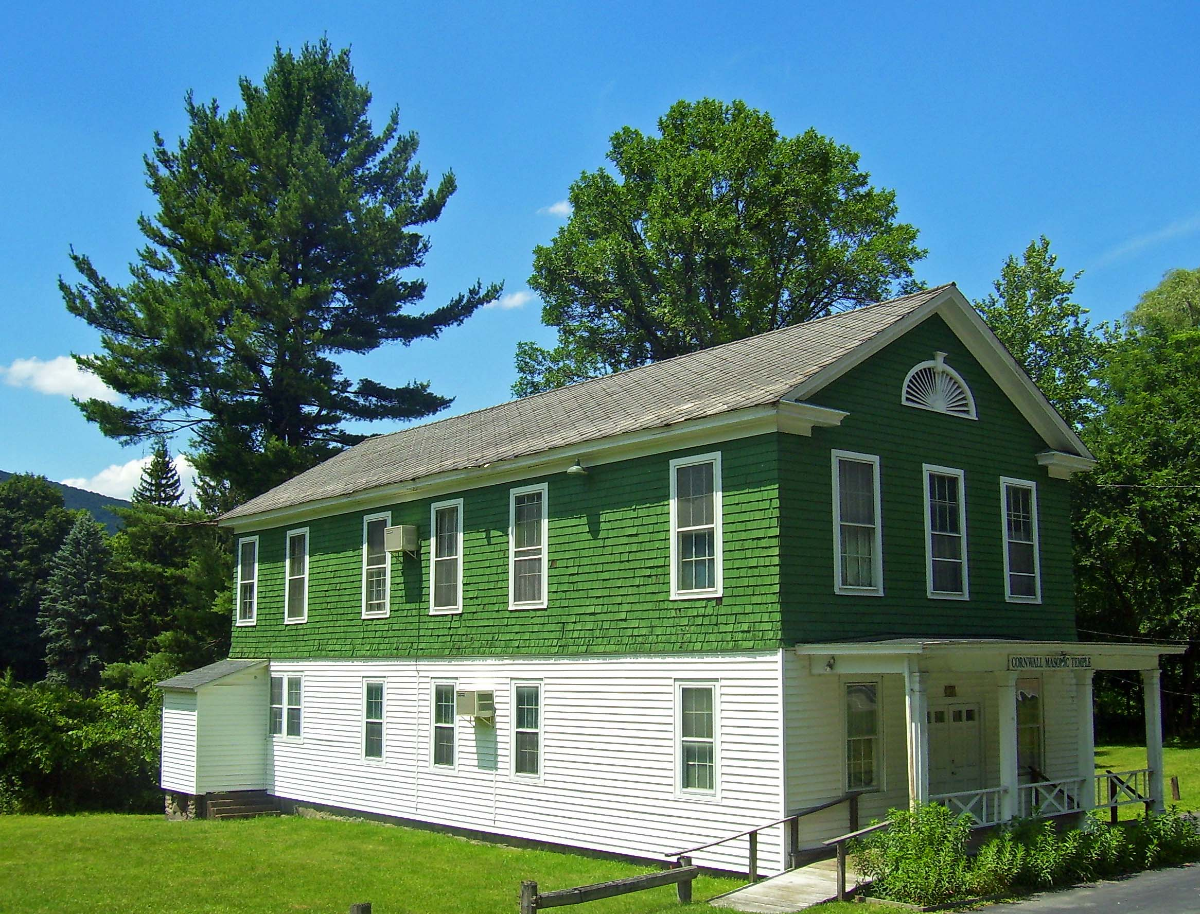 Former Mountainville Grange Hall along NY 32 in Cornwall, NY, USA, now used as local Masonic lodge.